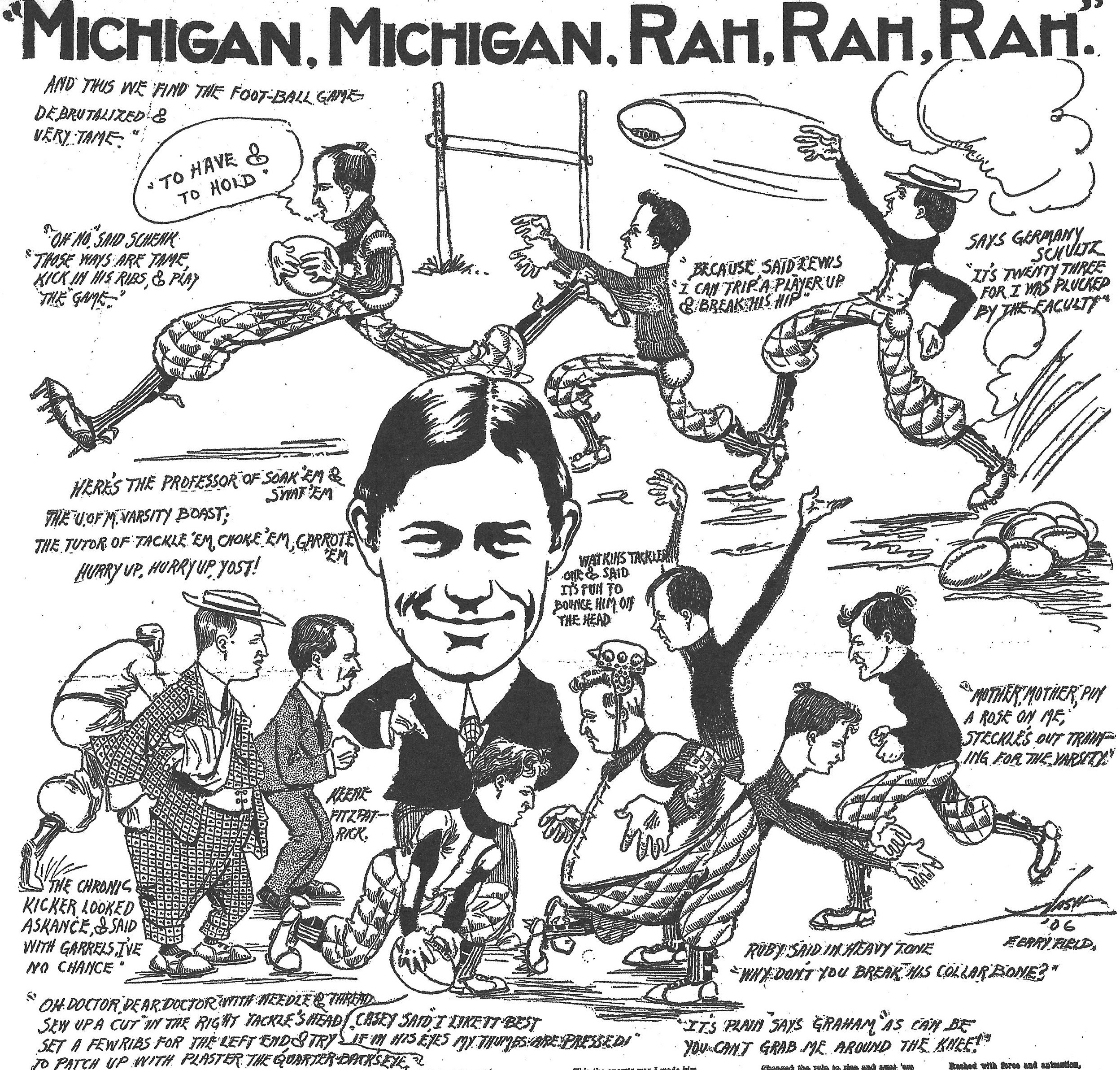 Michigan Wolverines football cartoon, October 1906